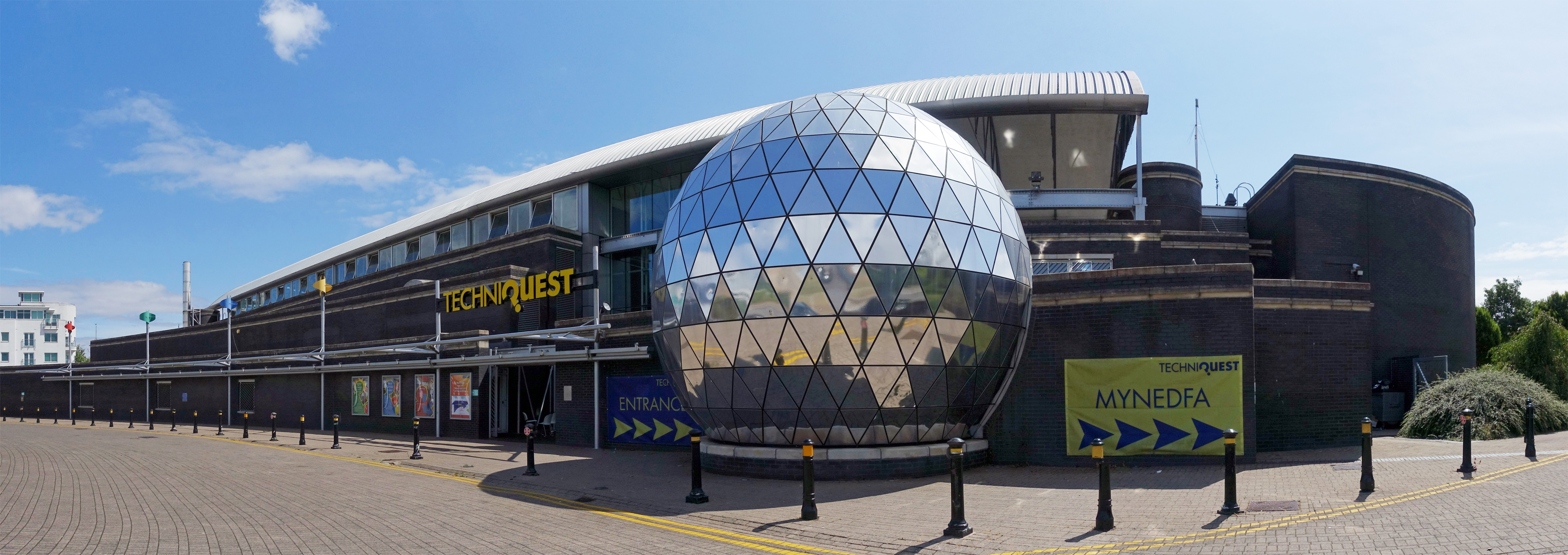 Techniquest in Cardiff.